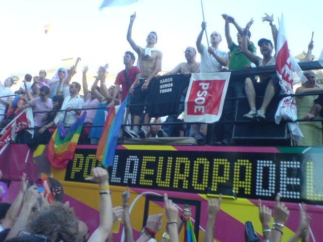 Europride 2007 in Madrid. Float of the governing Party of Spain PSOE (Spanish Socialist Worker's Party) with the slogan "For a Europe of Equality"